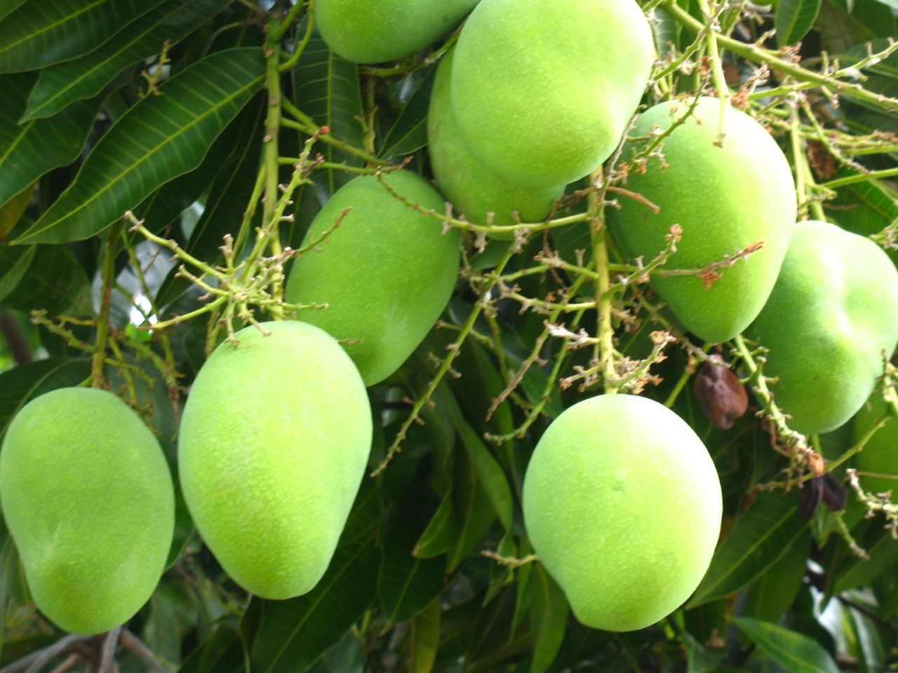 Why so many views? What's with this mango-obsession?.